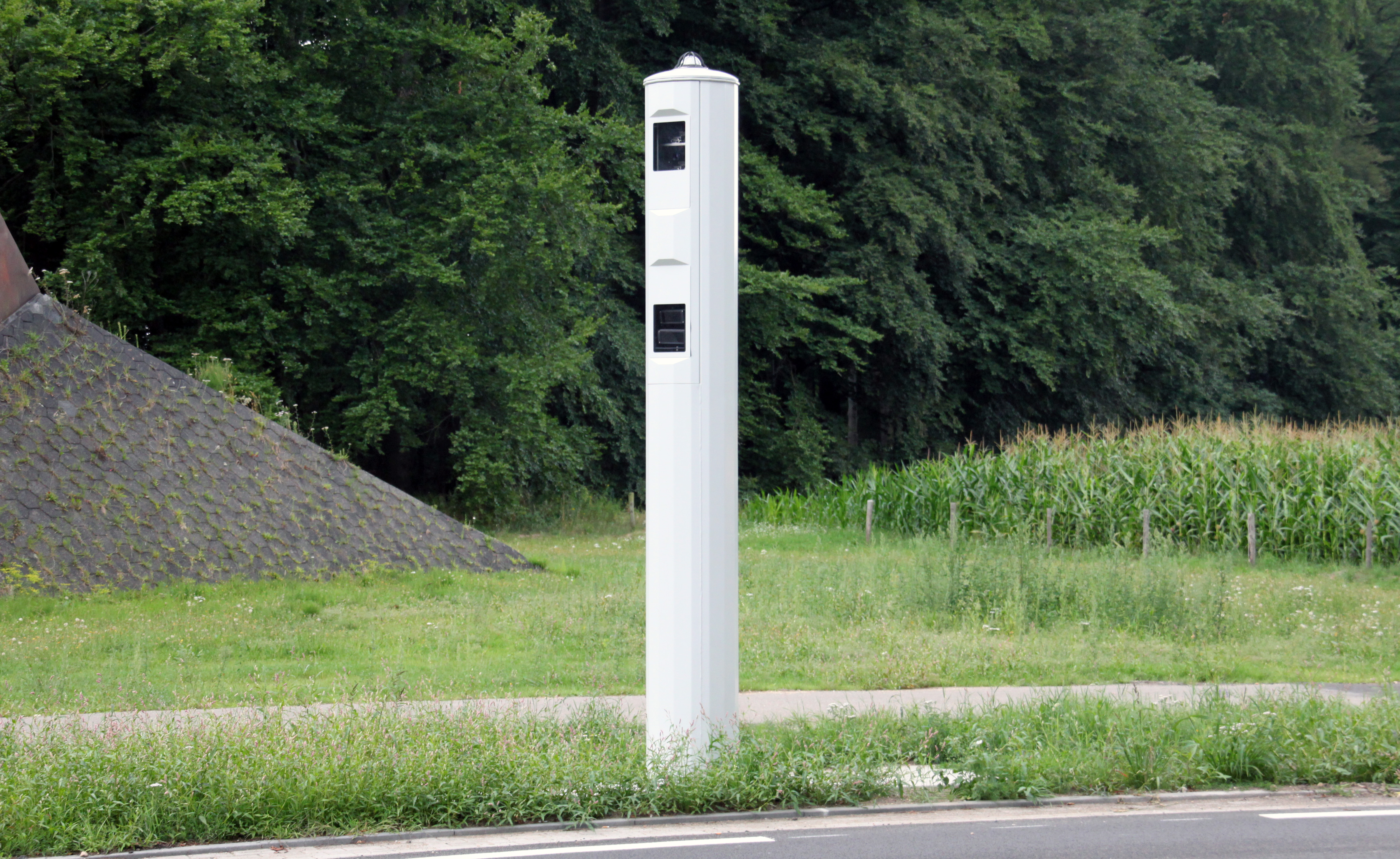 Digital speed camera in Arnhem, the Netherlands.